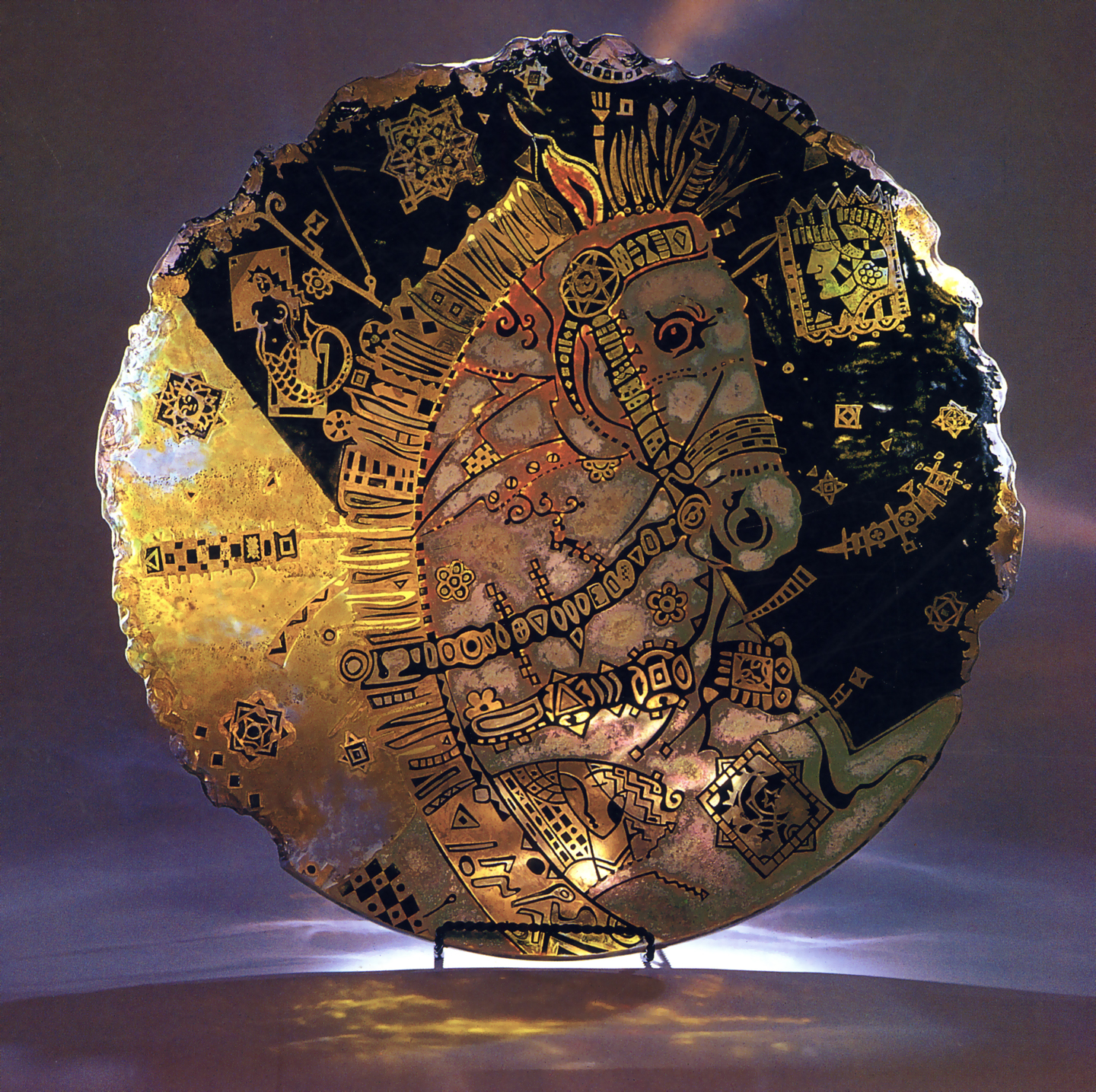 Imperial Glass Bowl is a kiln casting glass involves heating chunks or powdered glass in a kiln until they become liquid and flow into a waiting mold below it in the kiln. Hand-chiseled and accented with pure 24-karat gold, real patinas, enamels, very rare palladium and solid platinum.